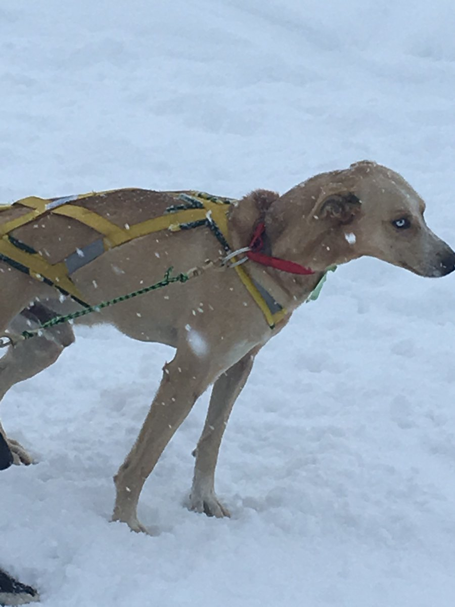 A sled dog in the Pedigree Stage Stop Race in Pinedale, Wyoming.